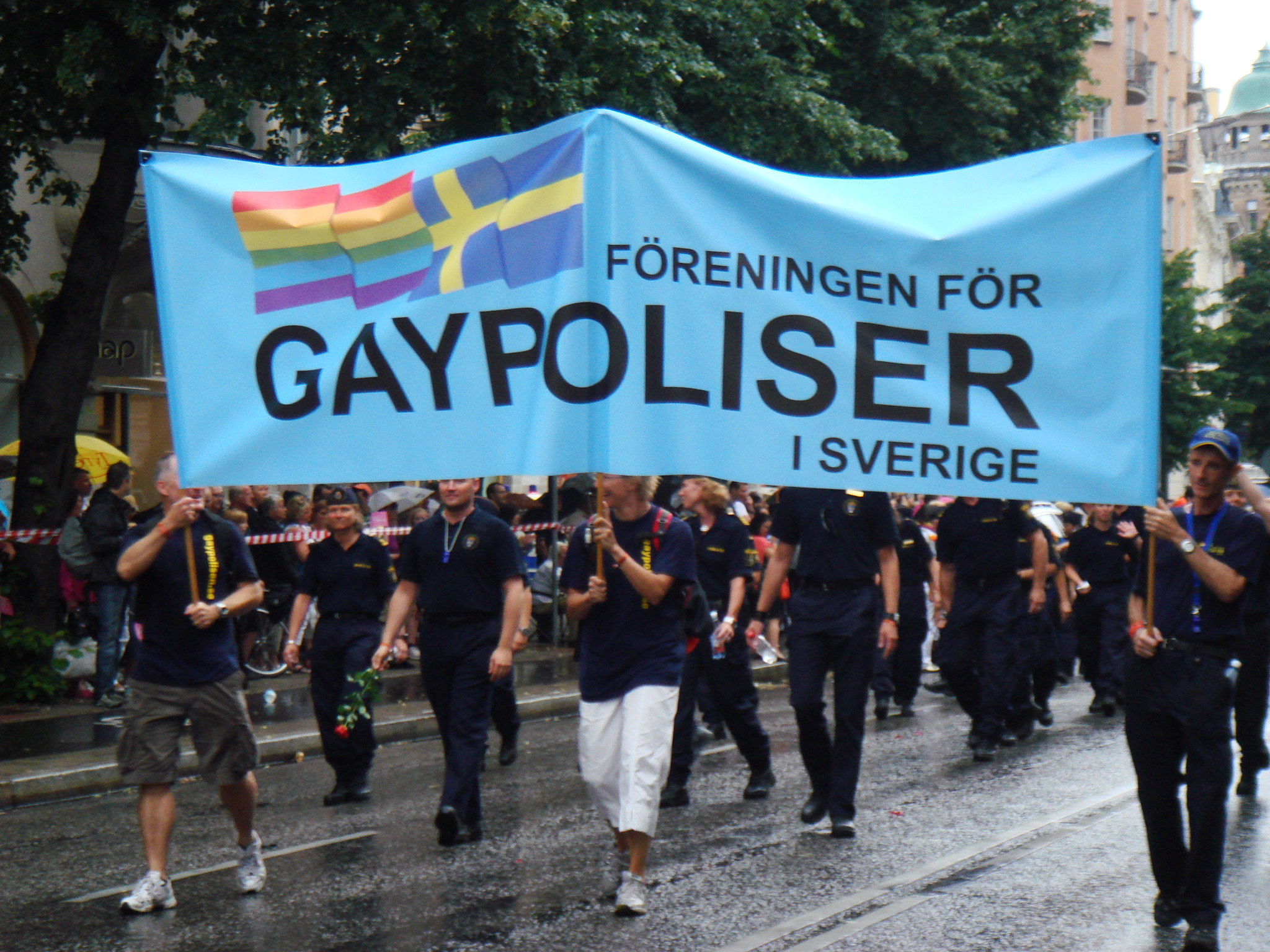 Stockholm Europride 2008. Picture by Stefano Bolognini.